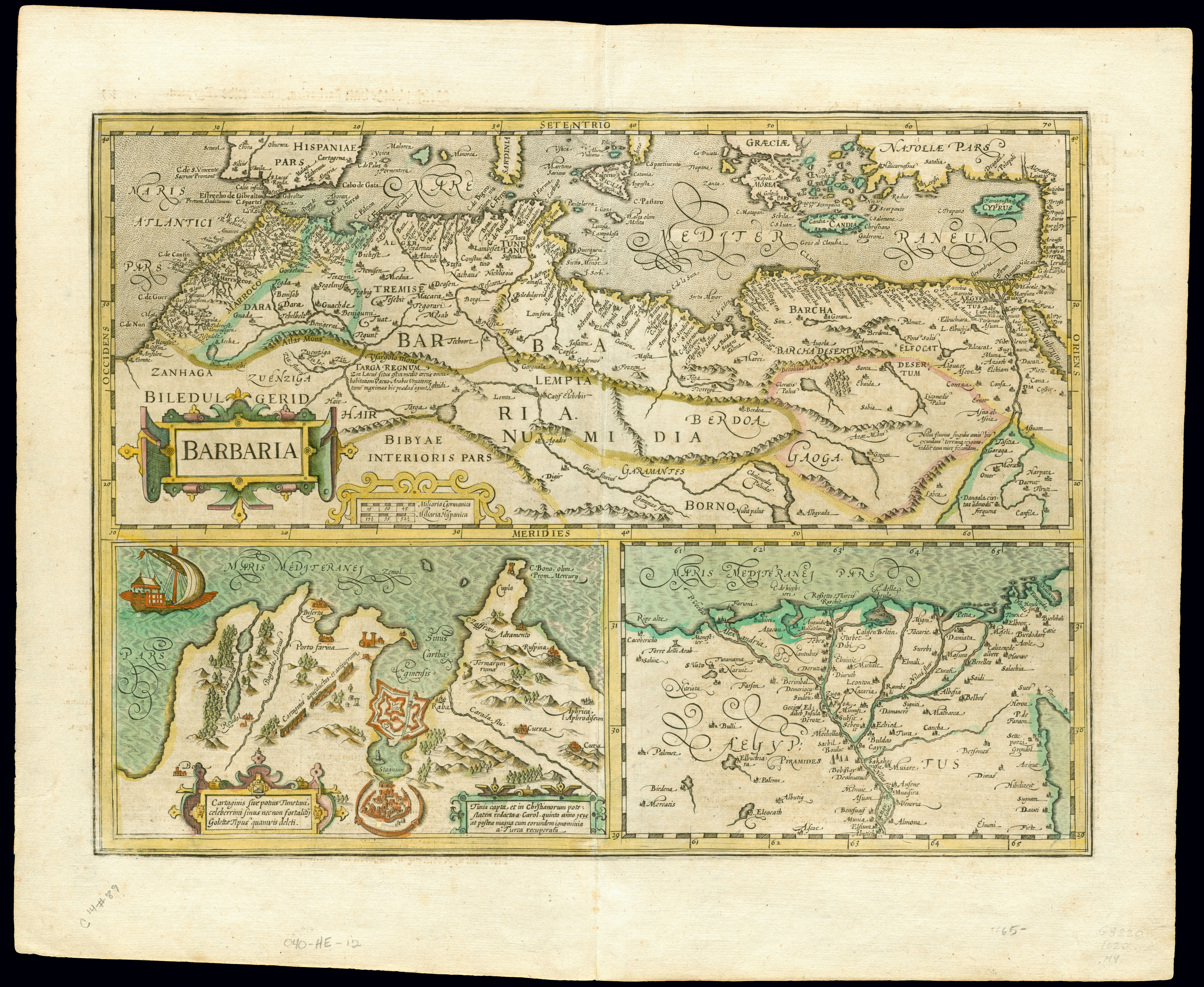 Barbaria. Cartaginis sive potius Tunetani celeberrimi sinus nec non fortalitii Goleltæ Tipus quamvis deleti. Aegyptus Beschryvinge van Barbarien, Tunis ende Ægypten Relief shown pictorially. Verso pages numbered 354 and 353. Detached from Gerard Mercator : Atlas sive cosmographicae meditationes de fabrica mundi et fabricati figura. Originally published by Jodocus Hondius. (Description from: North West University Library)